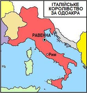 Map of the Odoacer's Kingdom (ukrainian)